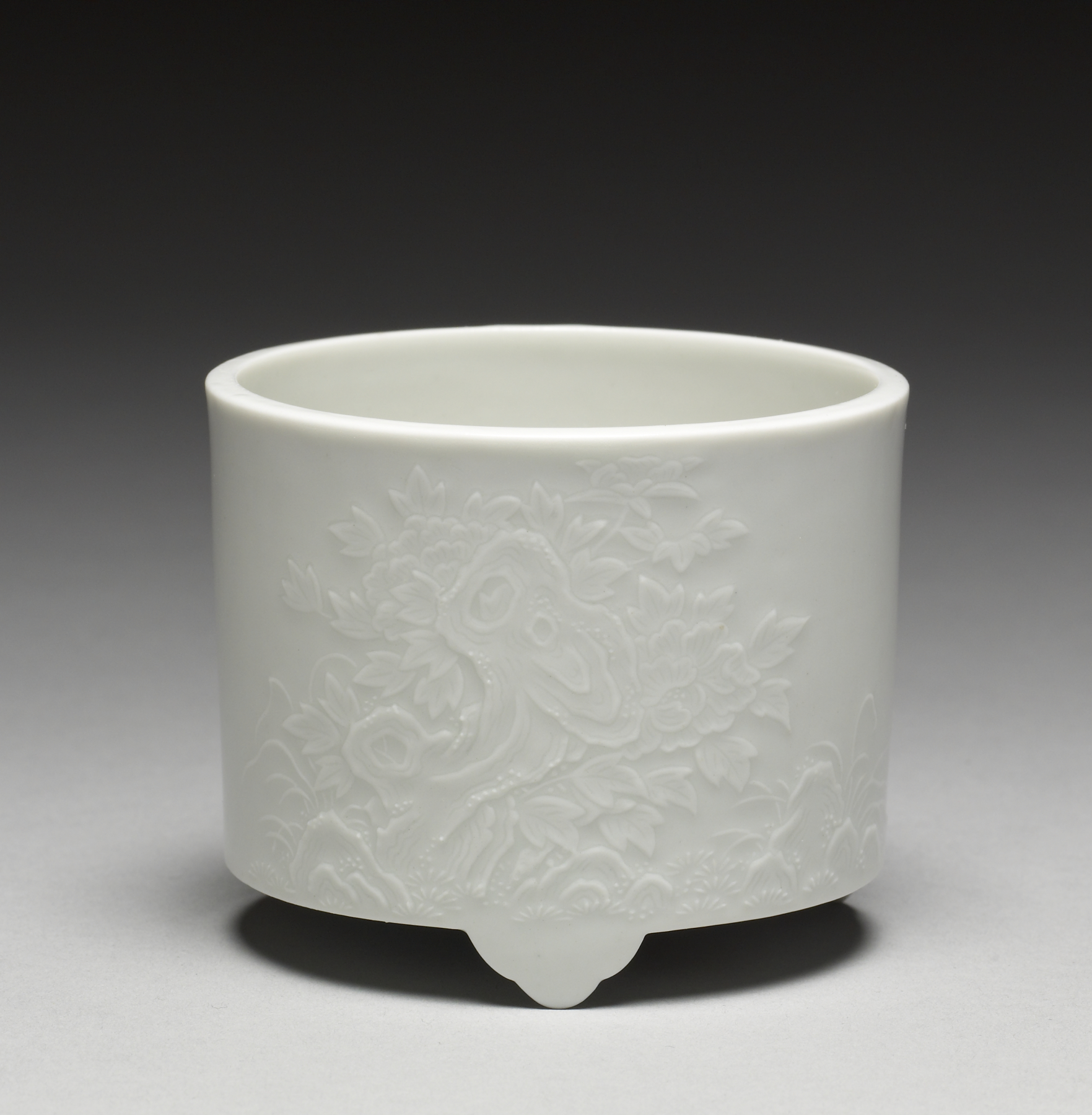 This is an example of Hirado ware.